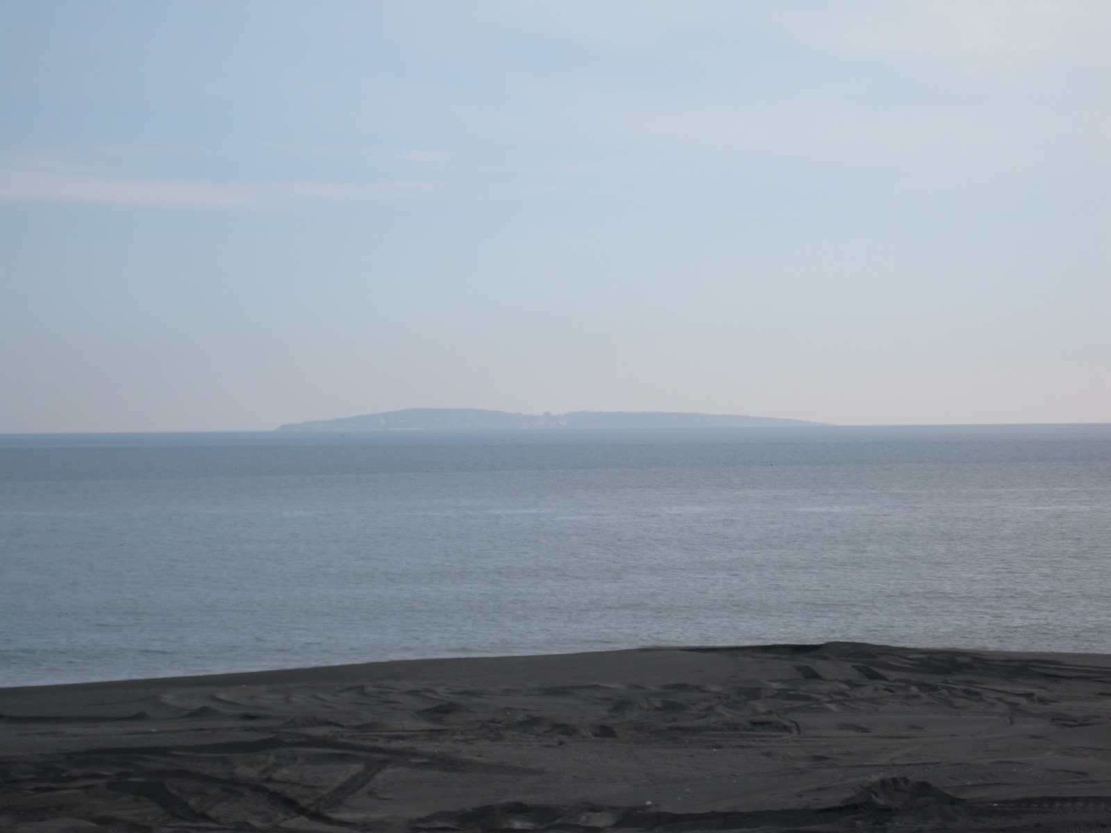 Lamay Island viewed from Dapeng Bay.